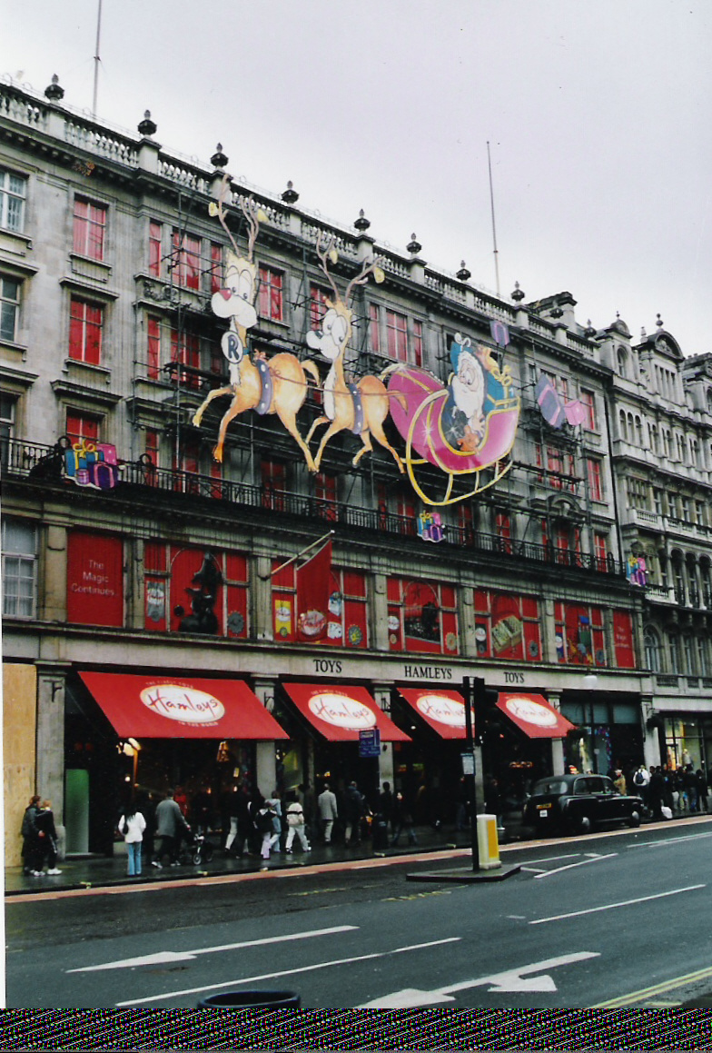 Hamleys toy store on Regent Street, London, photo by Chris Nyborg, Nov 2004